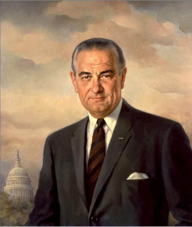 Lyndon B. Johnson. 36th President of the United States (1963-1969)